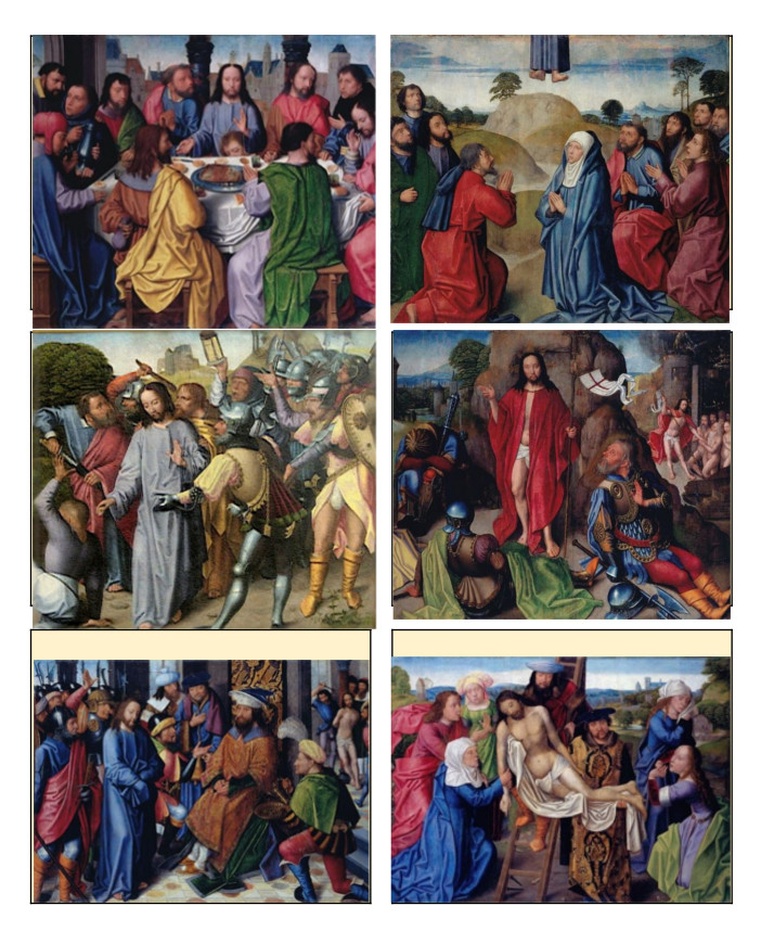 Polyptych of Esporão Chapel (Cathedral of Évora) and now is on display at Museu de Évora, Portugal.